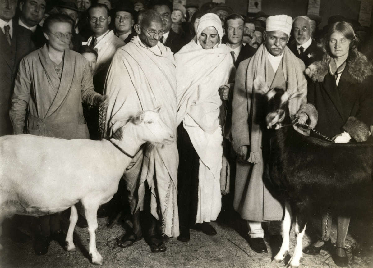 Mohandas K. Gandhi at his arrival from India at Marseille, France, on September 11th, 1931, going to England to attend the Table Round Conference. On his right is Madeleine Rolland, sister of Romain Rolland. On his left is Madeleine Slade, often called Mirabehn. Gandhi brought with him from India two goats to provide his daily ration of milk. See a detailed chronology of Gandhi's life.